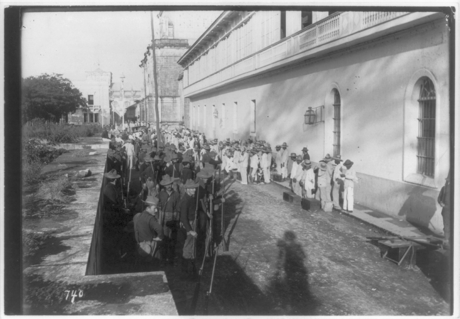 Title: Philippines, Manila, 1899: U.S. soldiers and insurrecto prisoners at the cathedral, Walled City Abstract/medium: 1 photographic print.